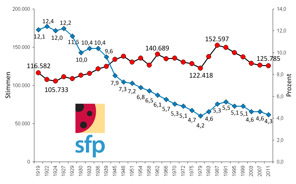 Swedish People's Party of Finland / Svenska folkpartiet i Finland / Suomen ruotsalainen kansanpuolue: Votes and percentage of national vote (1919–2011)